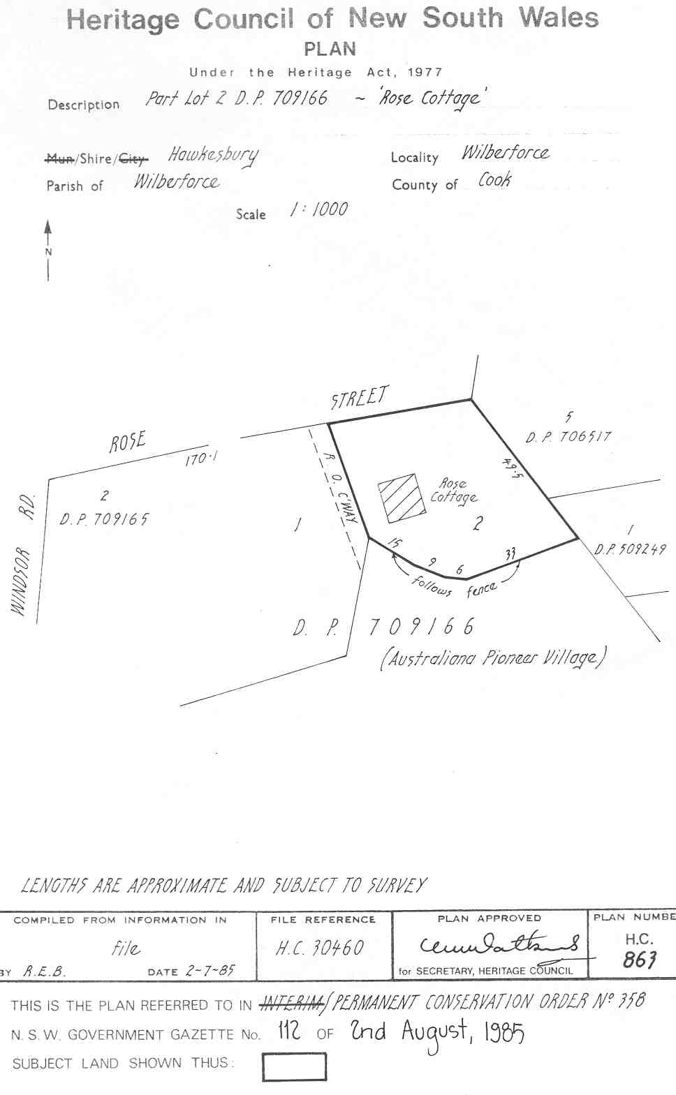 Rose Cottage, Wilberforce: PCO Plan Number 358